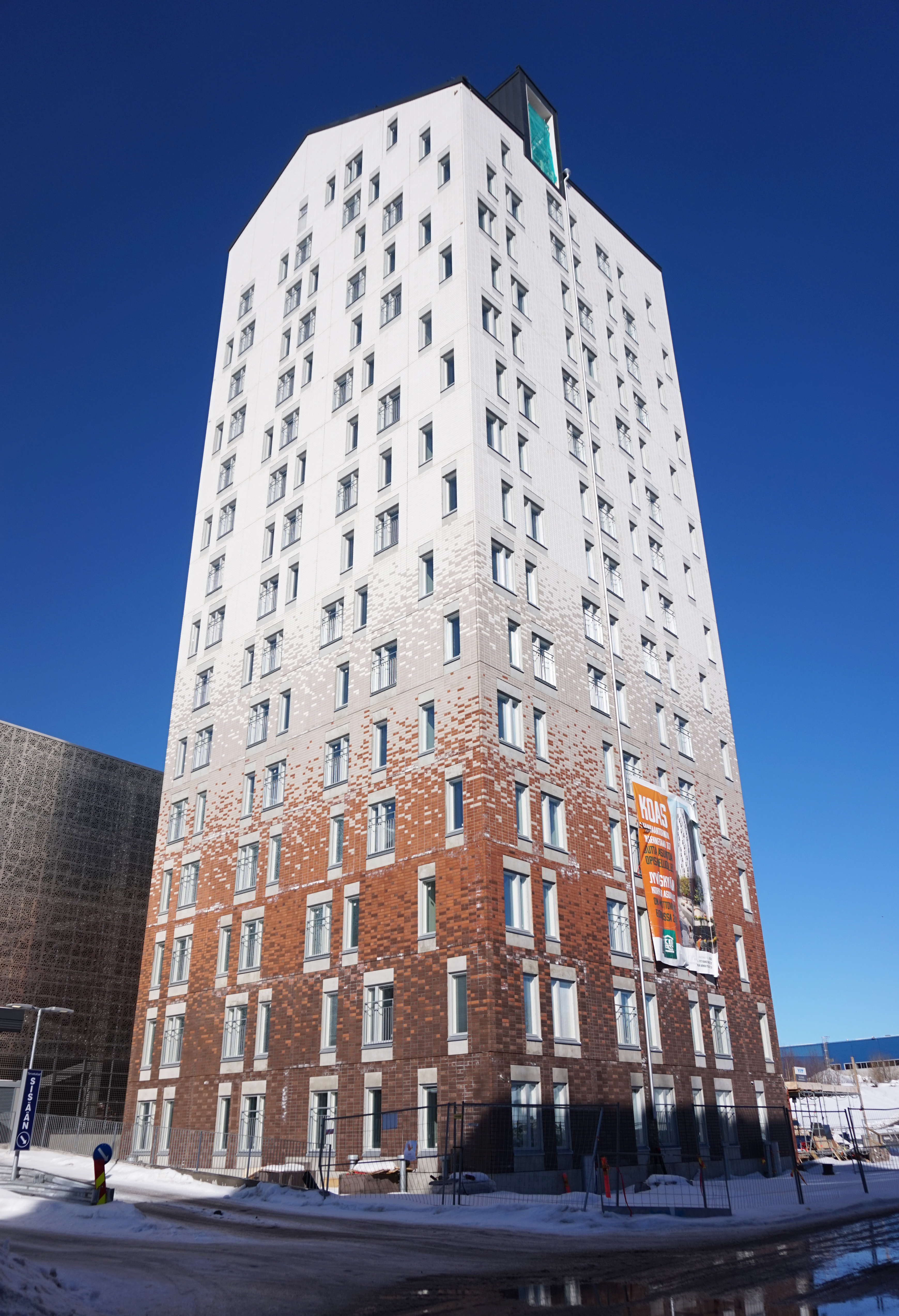 KOAS Tower, Jyväskylä.